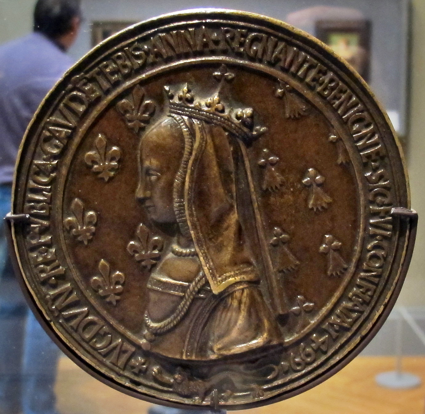 Medals in the Metropolitan Museum of Art